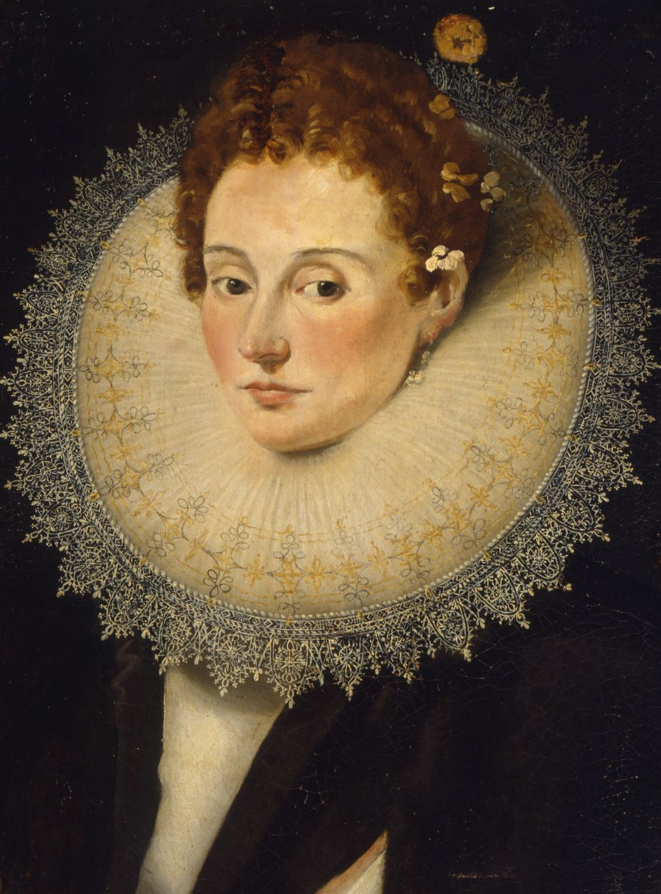 Gerolama Orsini, duchess of Parma